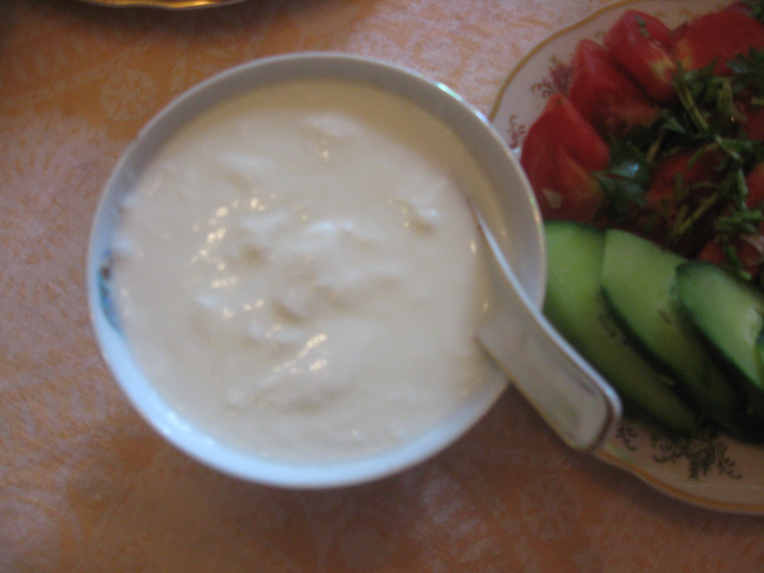 Caucasian milk